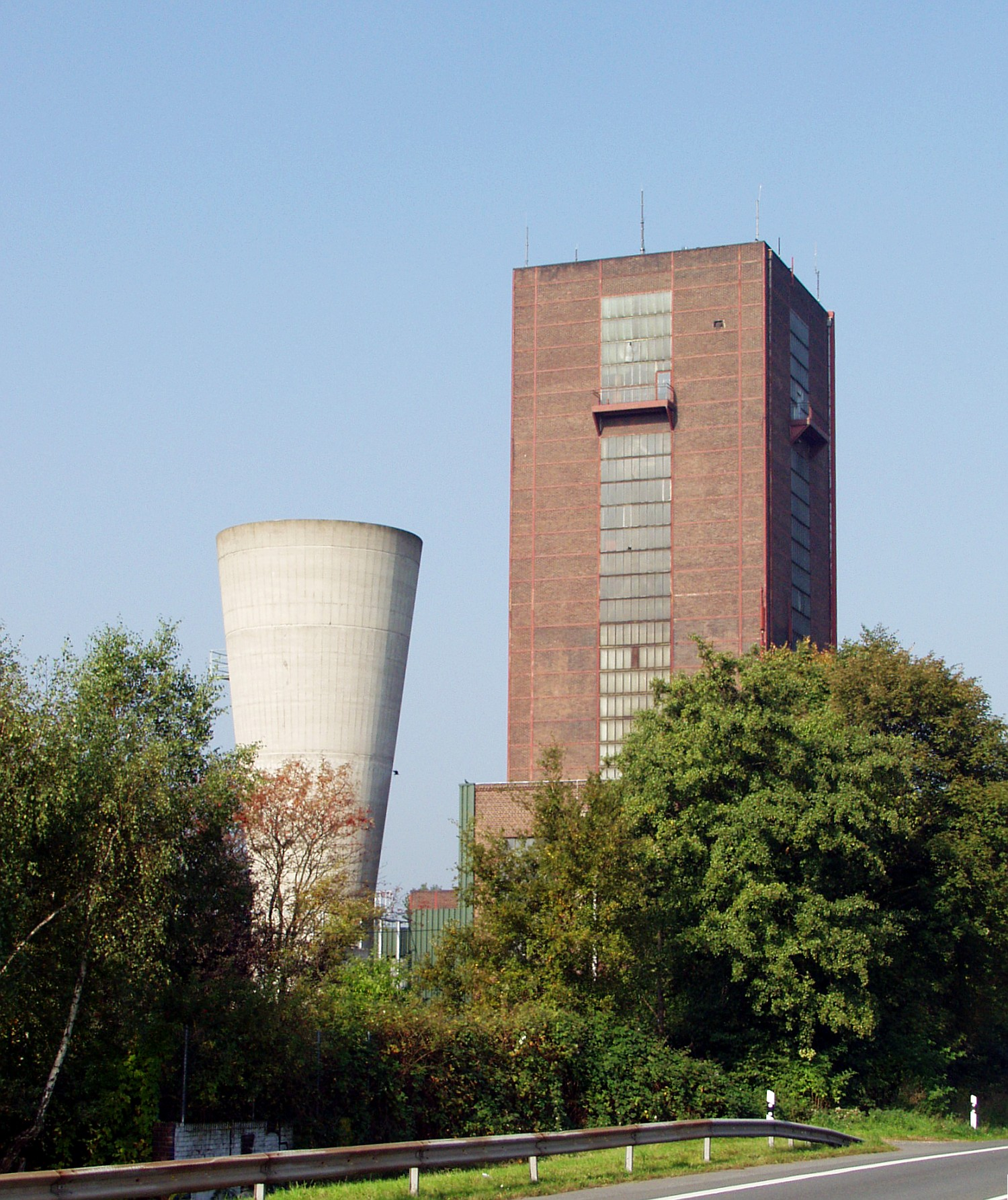 Winding tower of coal mine "Rheinpreußen", mine shaft no. 8 in Duisburg-Homberg, Germany